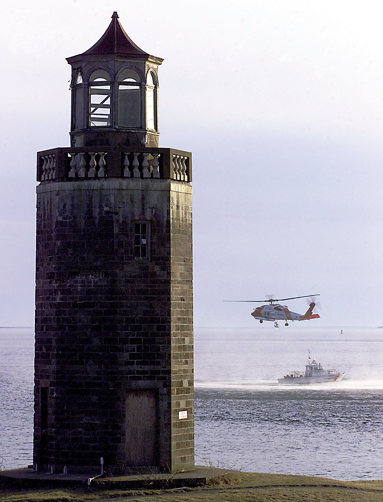 Avery Point Lighthouse, Groton, Connecticut, USA; April 2000